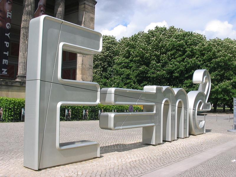 „Relativity“, sixth and last sculpture of the Berliner Walk of Ideas on the occasion of 2006 FIFA World Cup Germany. Unveiling: 19 May 2006 in Lustgarten.